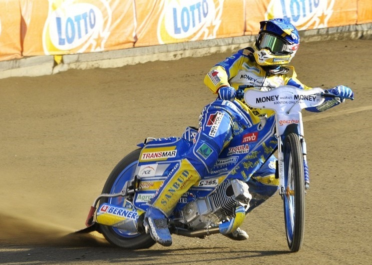 Bartosz Zmarzlik in Stal Gorzow in season 2015.